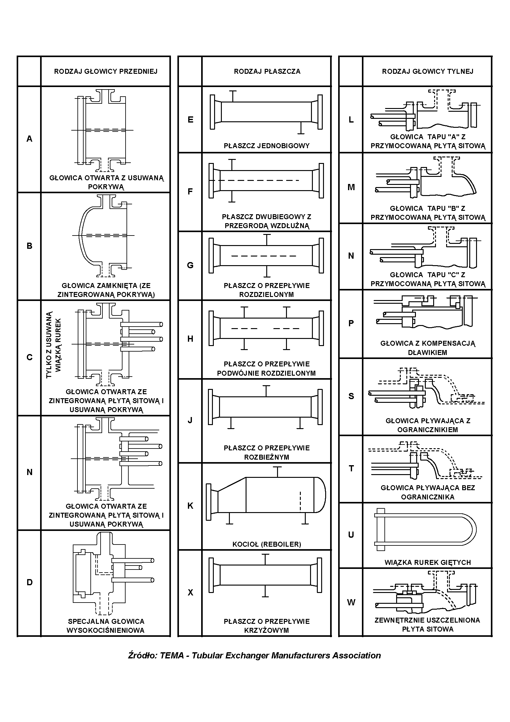 TEMA Nomenclature Table